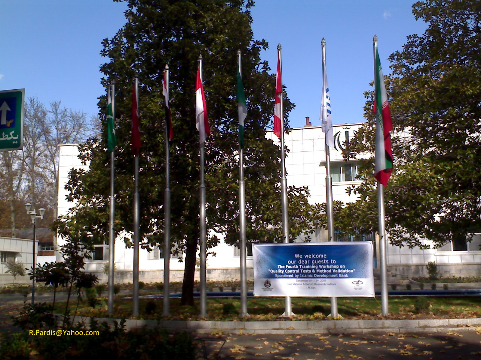 Razi entrance square